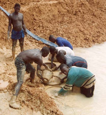 Diamond miners panning in the Kono District of Sierra Leone